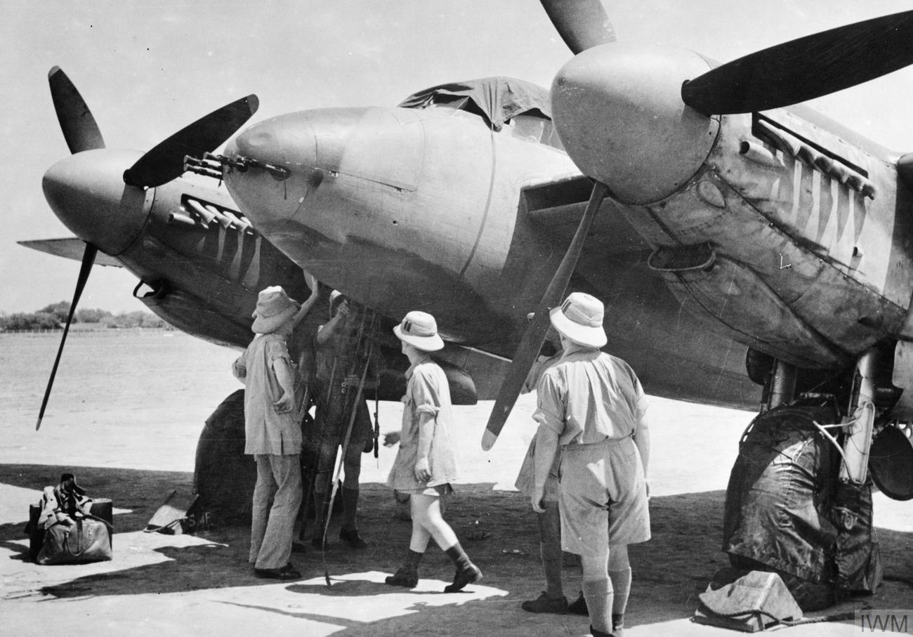 Royal Air Force Operations in the Far East, 1941-1945. Airmen inspect Mosquito Mark II, DZ695, on an airfield in India following delivery by No. 1 Overseas Aircraft Despatch Unit. This was one of the first Mosquitos sent to the Far Eastern theatre for trial purposes and was issued to No. 27 Squadron RAF at Agartala. The aircraft was written off following an overshot landing at Agartala on 3 May 1943.